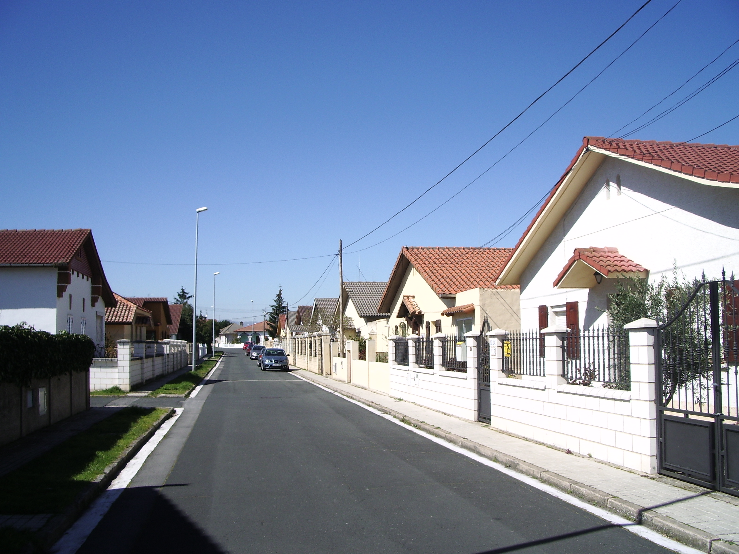 Los Angeles district in Miranda de Ebro.